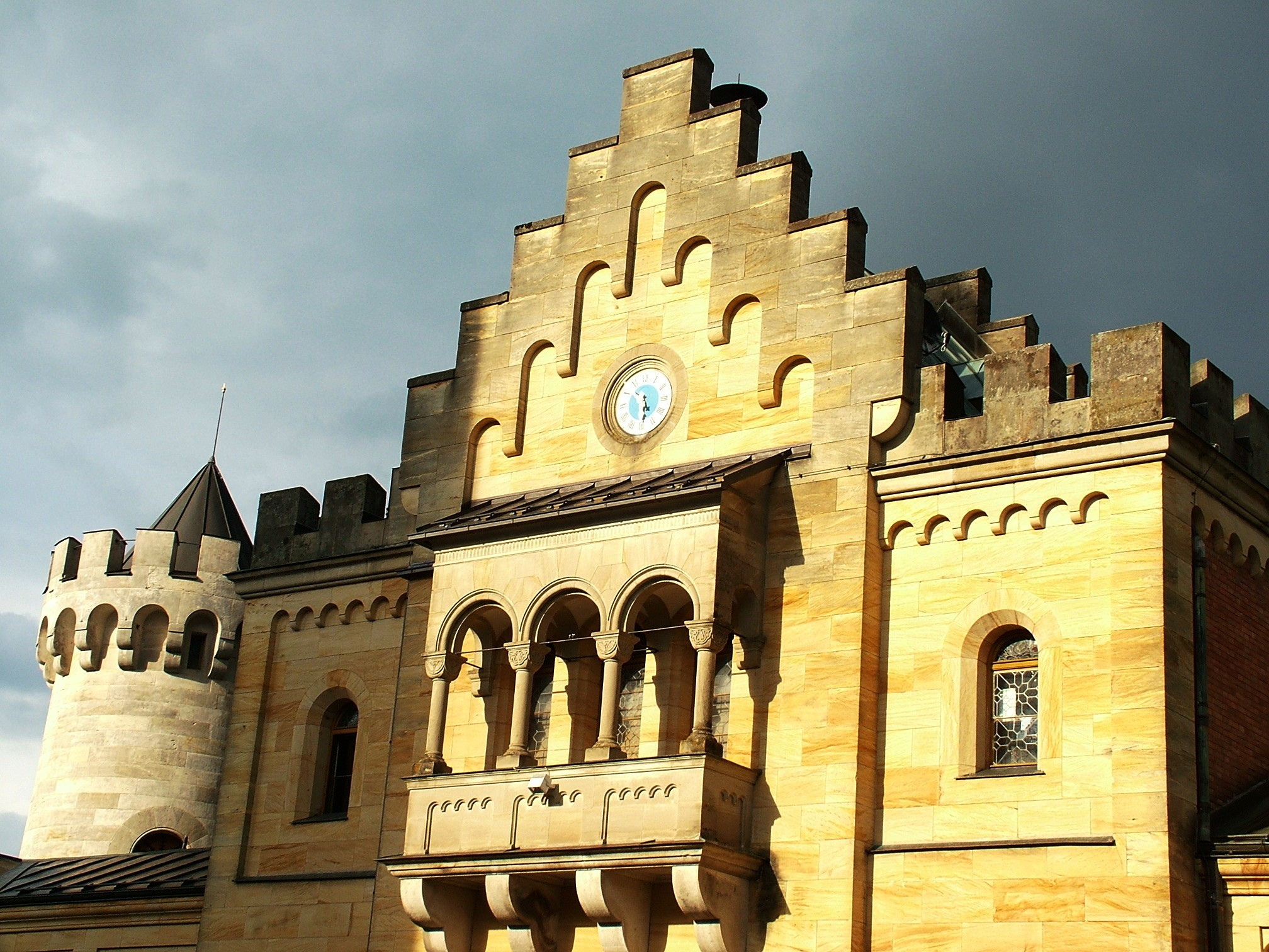 The inner facade of Neuschwanstein castle before a storm